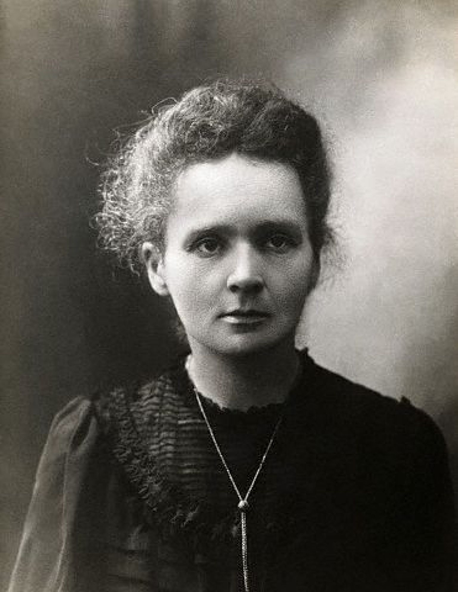 Portrait of Maria Skłodowska-Curie (November 7, 1867 – July 4, 1934), sometime prior to 1907. Curie and her husband Pierre shared a Nobel Prize in Physics in 1903. Working together, she and her husband isolated Polonium. Pierre died in 1907, but Marie continued her work, namely with Radium, and received a Nobel Prize in Chemistry in 1911. Her death is mainly attributed to excess exposure to radiation.